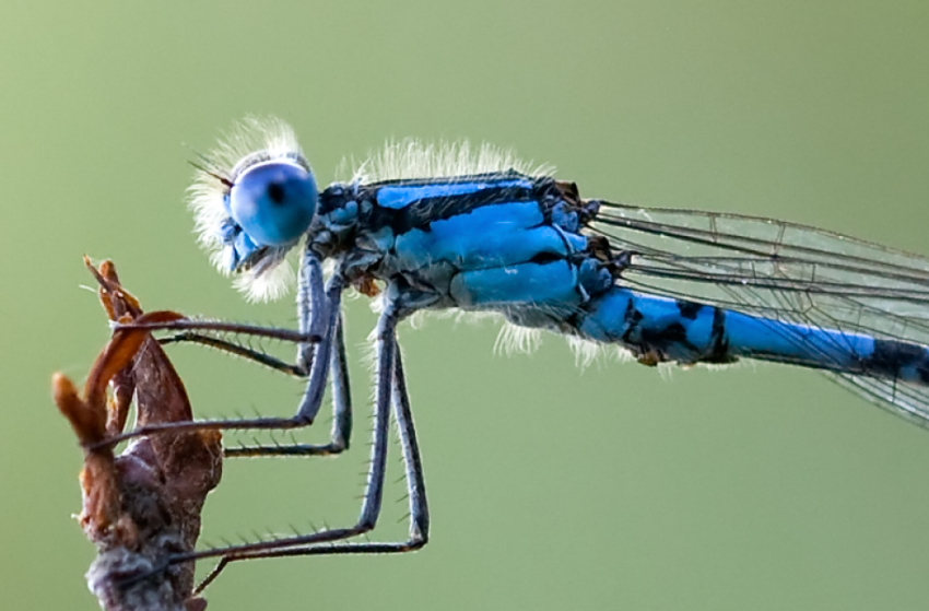 Thoraxdrawing of a male Common Blue Damselfly (Enallagma cyathigerum). Northern Lower Saxony, Germany.